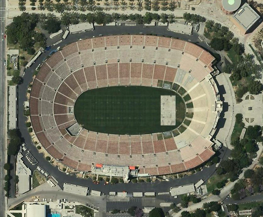 Aerial view of the Los Angeles Memorial Coliseum (NASA).